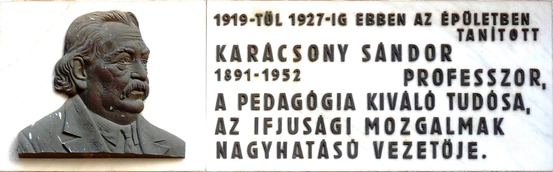 Sándor Karácsony commemorative plaque with relief in Budapest District VIII, Tavaszmező Street No 15-17. The bronze relief was created by the sculptor László Rajki.